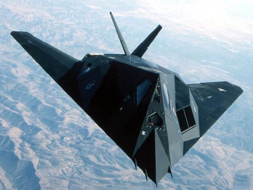 F-117A Nighthawk with 49th FW emblem